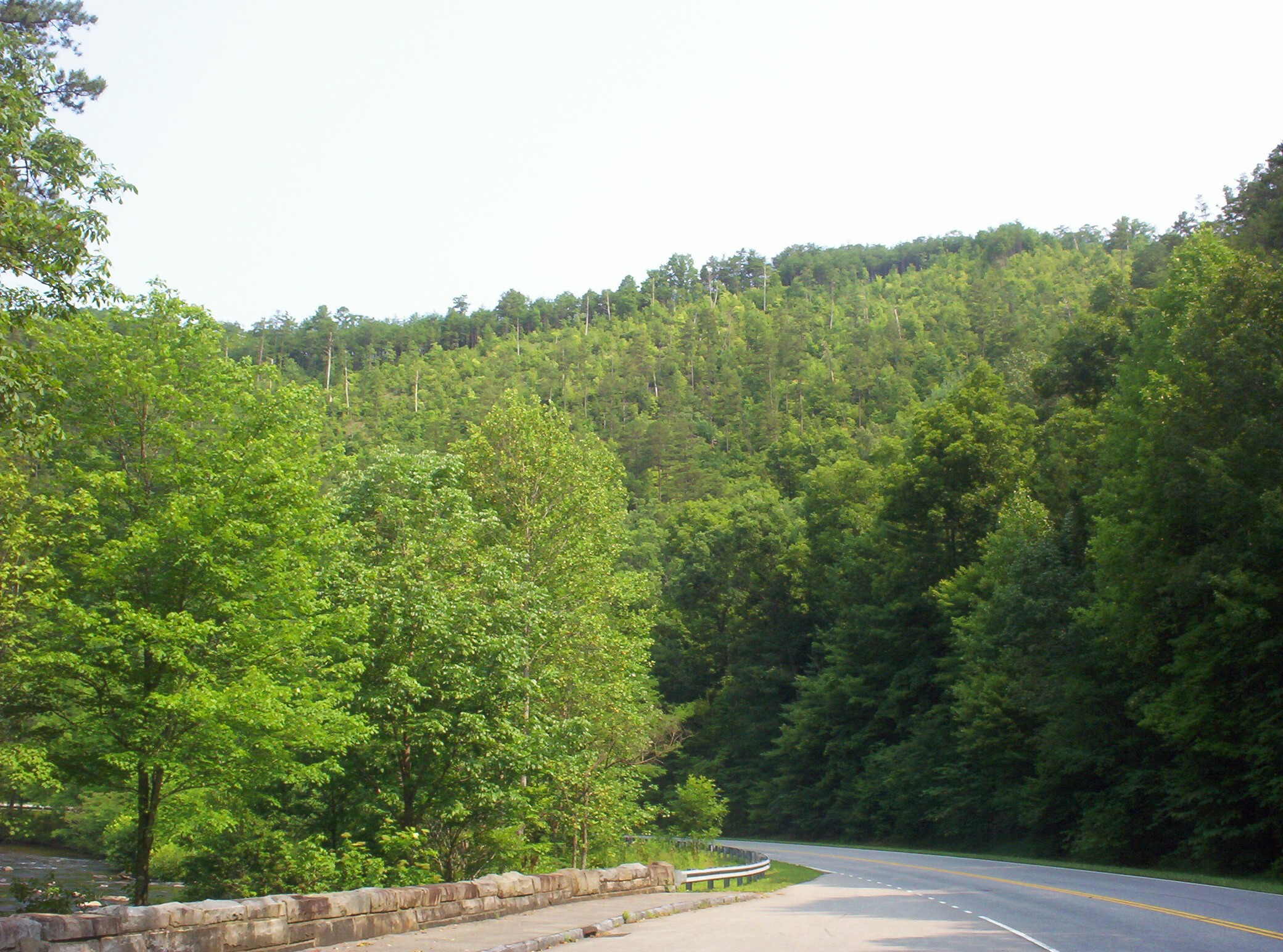 View at end of Skyway near Tellico Plains. Taken July 6, 2006 Terrill White